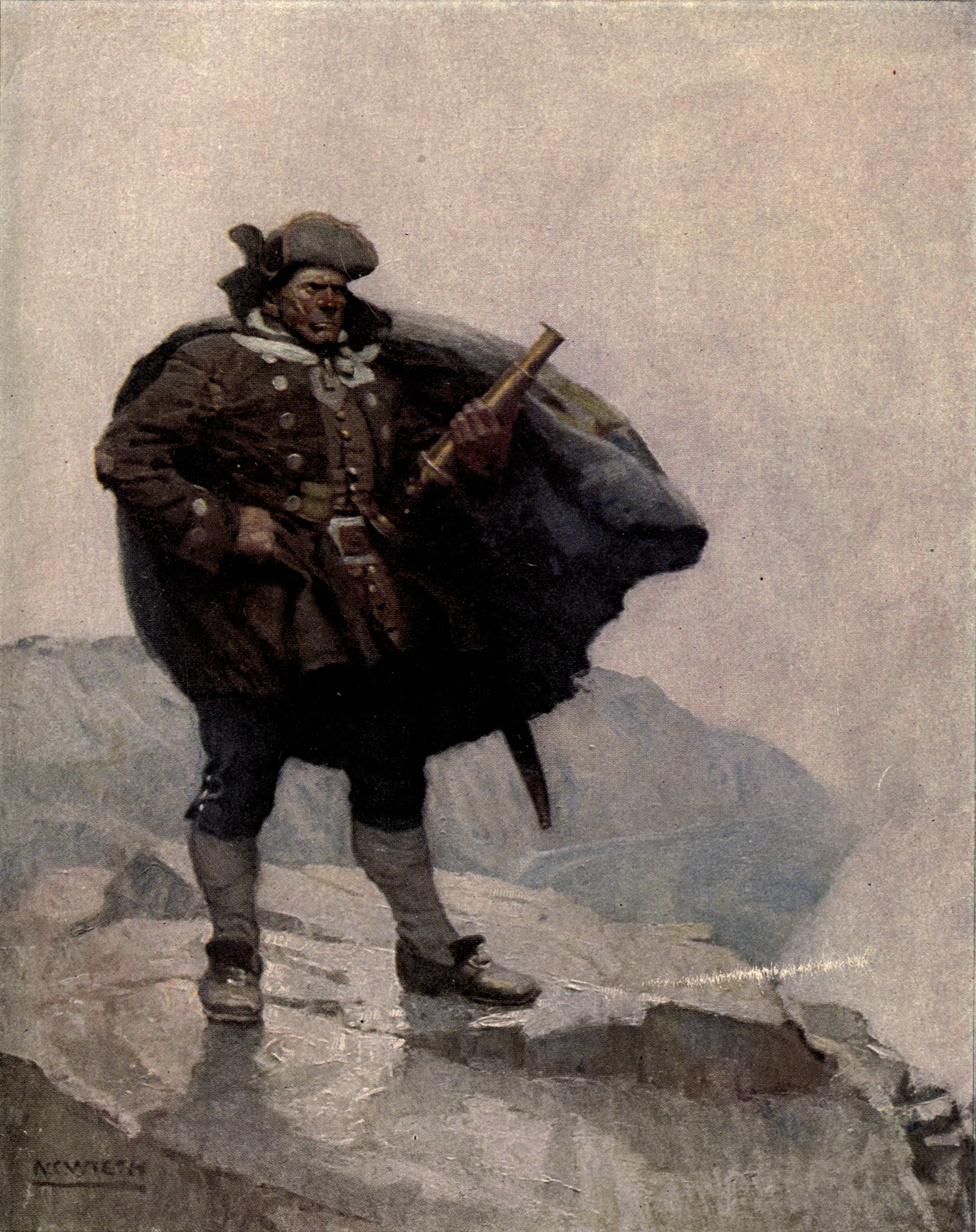 Billy Bones by N. C. Wyeth from 1911 edition of Treasure Island